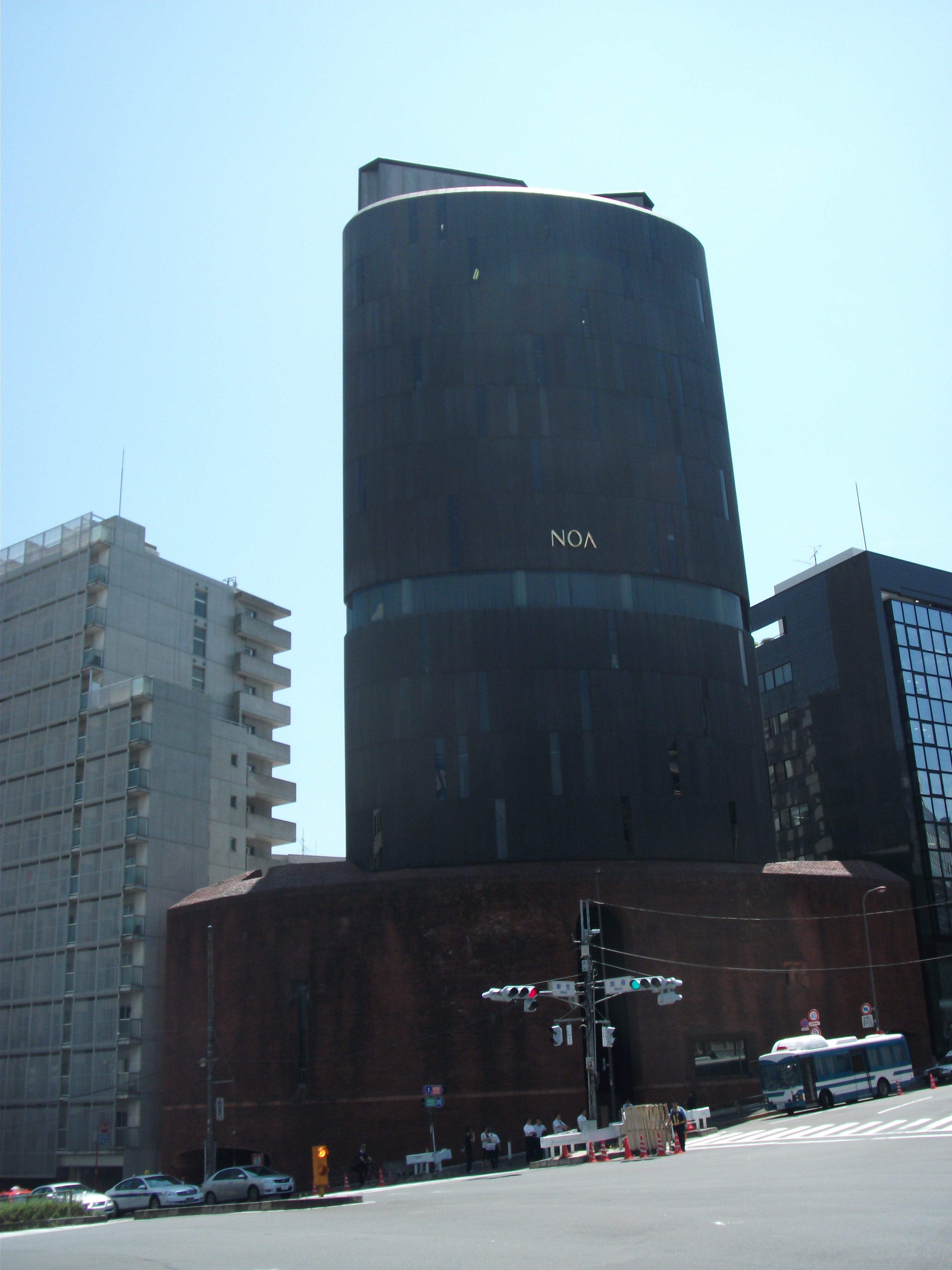 Noa Building in Azabudai, Minato Ward, Tokyo, Japan